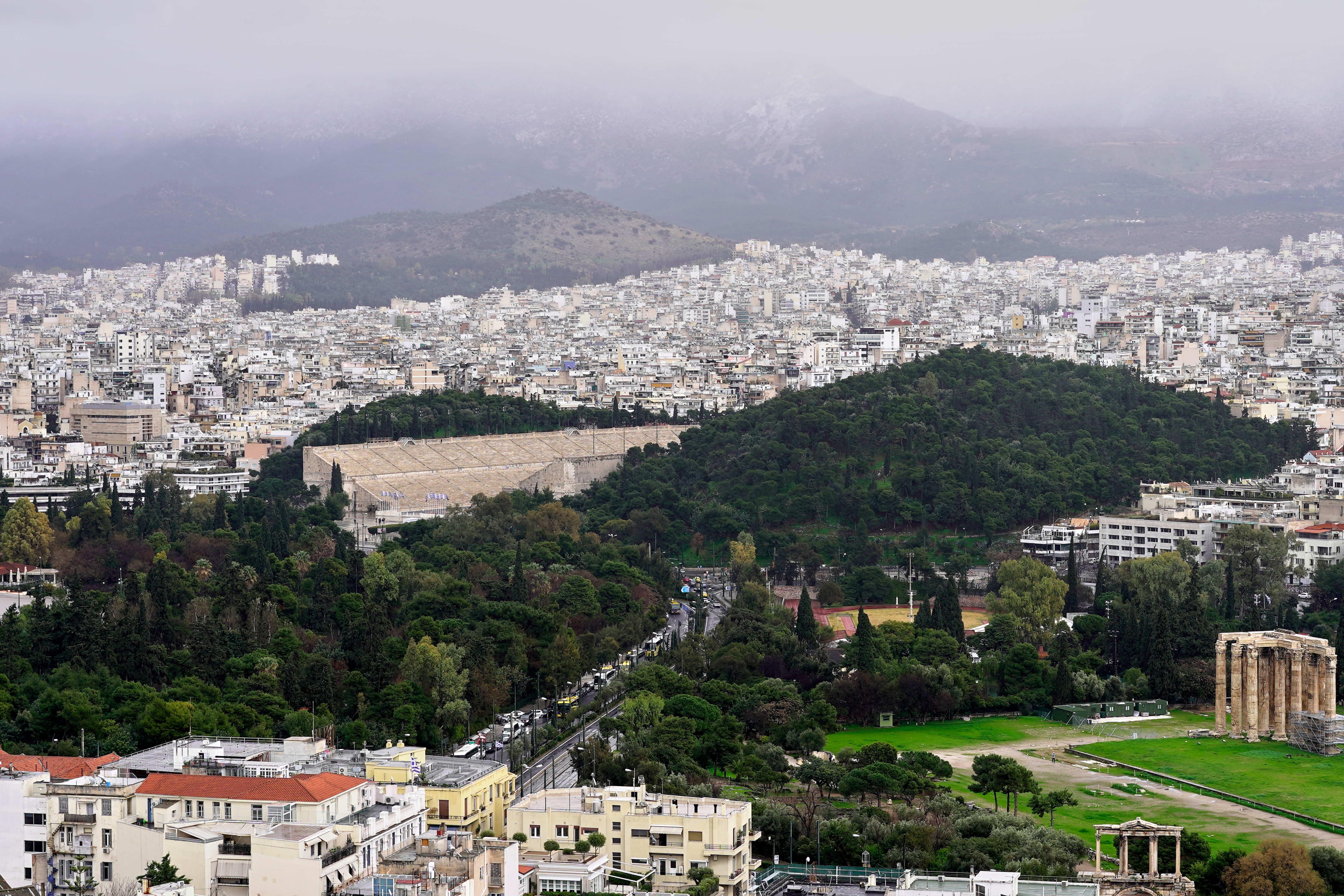 Ardettus Hill and the Panathenaic Stadium on February 6, 2020.